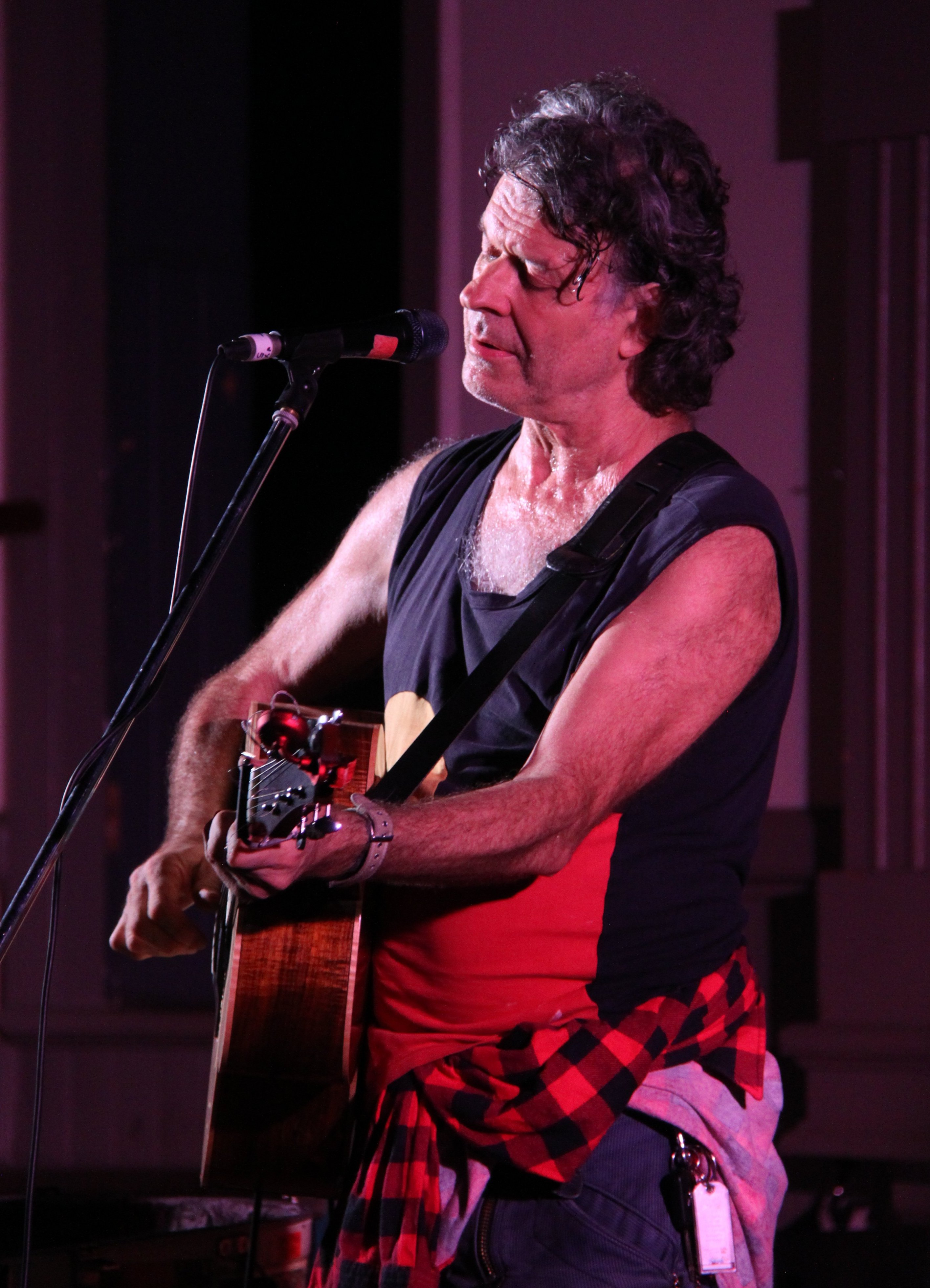 Rory McLeod, UK folk performer, on stage in Nimbin, New South Wales, Australia, 14 February 2020 (Tony Rees photograph) - image 2 of 3